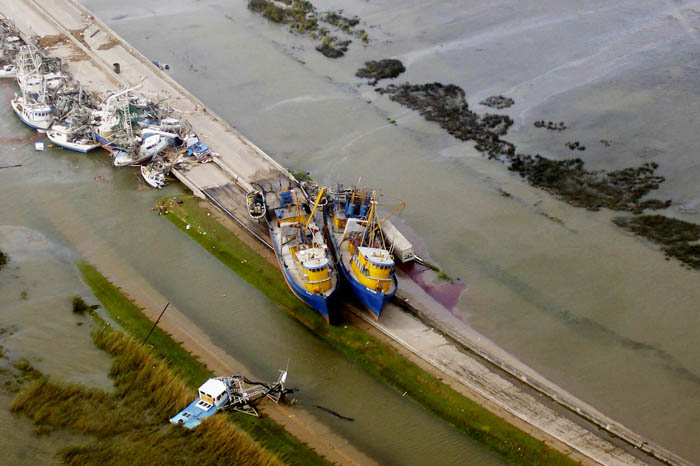 Along the coast, storm surge is often the greatest threat to life and property from a hurricane. In the past, large death tolls have resulted from the rise of the ocean associated with many of the major hurricanes that have made landfall. At least 1,500 persons lost their lives during Katrina and many of those deaths occurred directly, or indirectly, as a result of storm surge. Storm surges can result in large ships and vessels stranding ashore. This aerial view was captured by NOAA in South Plaquemines Parish, La., near Empire, Buras and Boothville where Hurricane Katrina made landfall. To learn more about storm surge and tools that help coastal planners prepare for future storms, visit: . (Credit: NOAA)